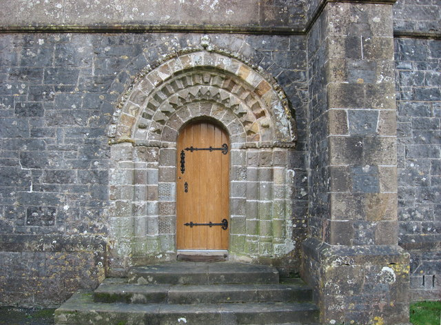 Romanesque doorway, Kilmore, Co. Cavan The twelfth century Romanesque doorway taken from a church on Lough Oughter, Co. Cavan, and inserted here when the cathedral was built in 1858.